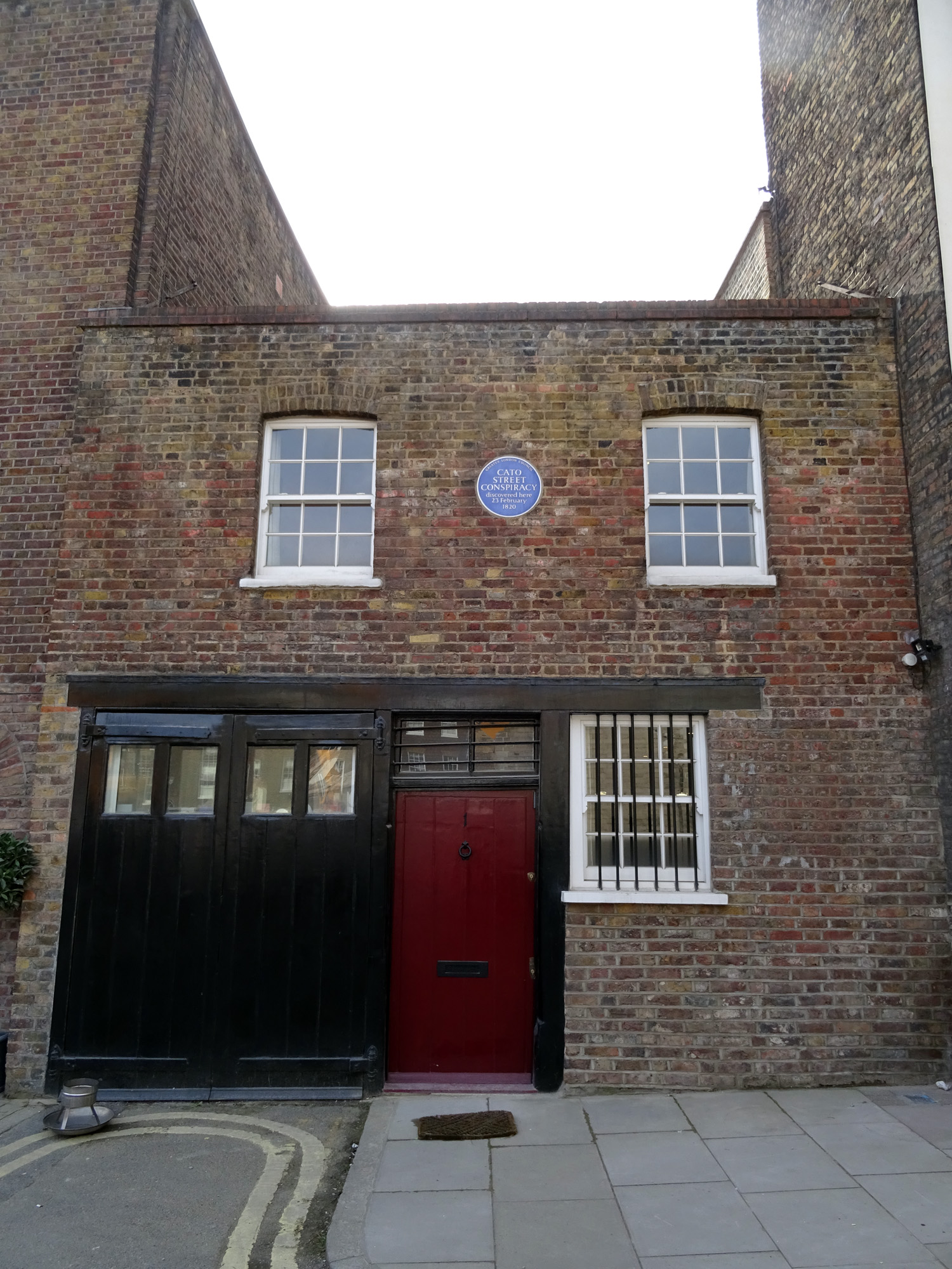 Cato Street Conspiracy discovered here 23 February 1820